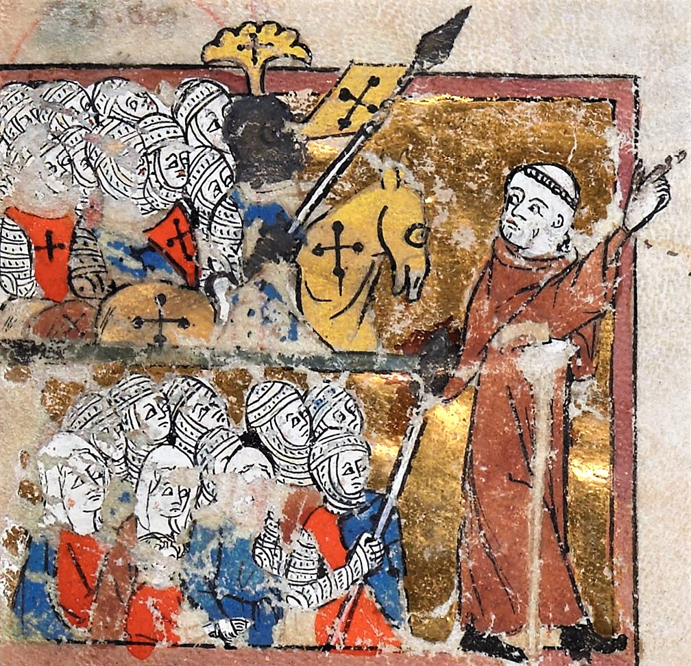 Peter the Hermit, miniature from Egerton Manuscript 1500, folio 45 verso, France, 14th c.